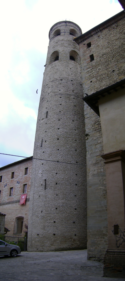 The bell tower of the cathedral of Citta di Castello, in the province of Perugia, Umbria